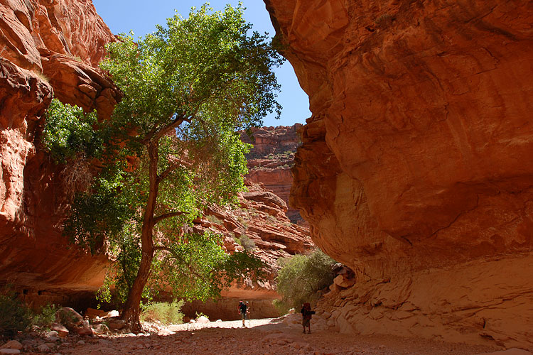 Havasupai Trail, Arizona in April 2008